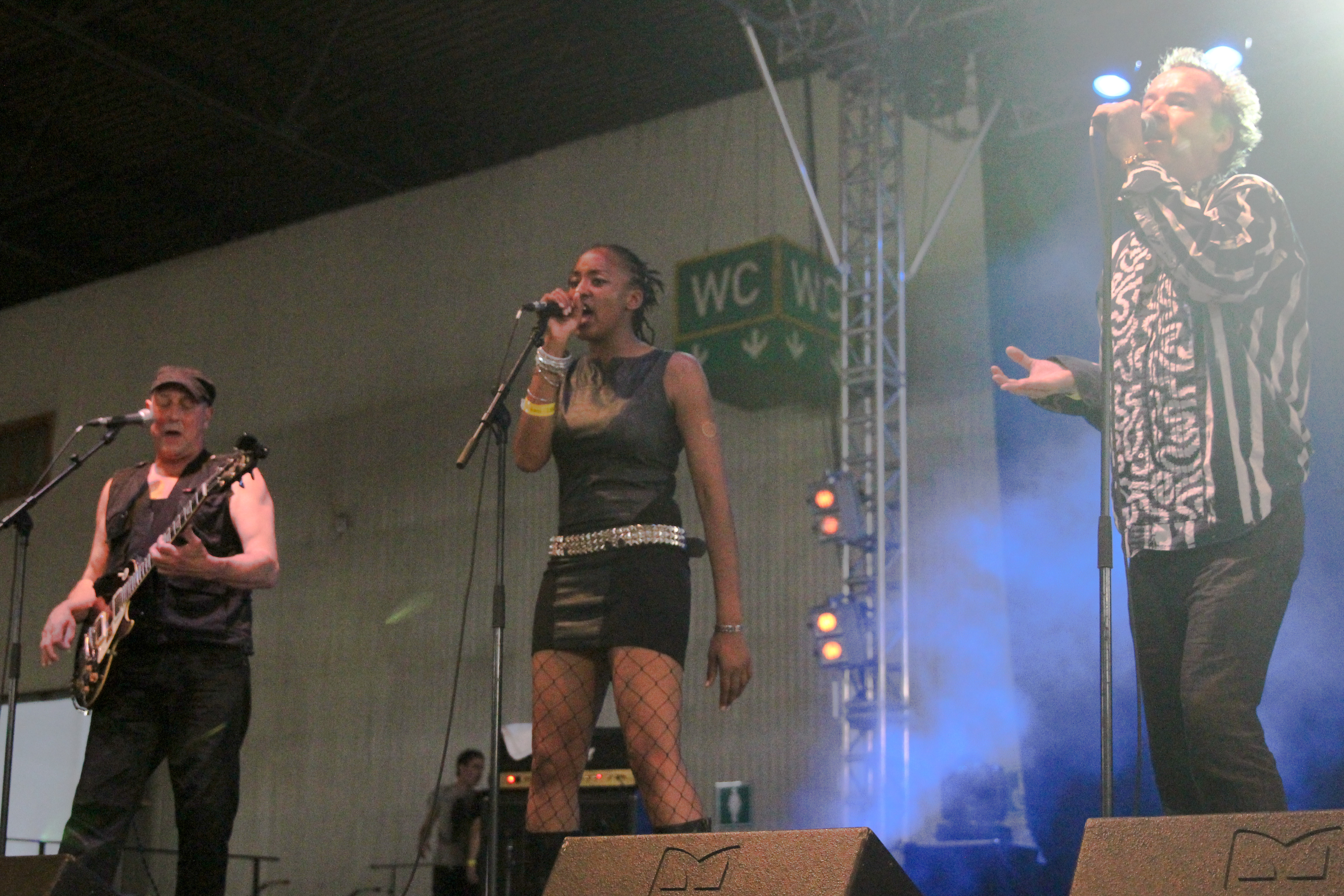 UK Decay at the Wave-Gotik-Treffen 2014.